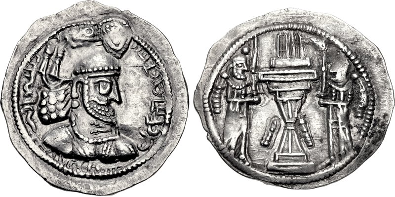 SASANIAN KINGS. Ardaxšīr (Ardashir) II. AD 379-383. AR Drachm (28mm, 4.10 g, 3h). Mint II (“Eastern”). Bust right, wearing plain crown with korymbos / Fire altar with ribbons; flanked by two attendants, each wearing plain crown with korymbos; fluted altar shaft. Cf. SNS type Ia/1a, A7; Göbl type I/1; Paruck -; Saeedi -. EF, lightly toned. Rare.